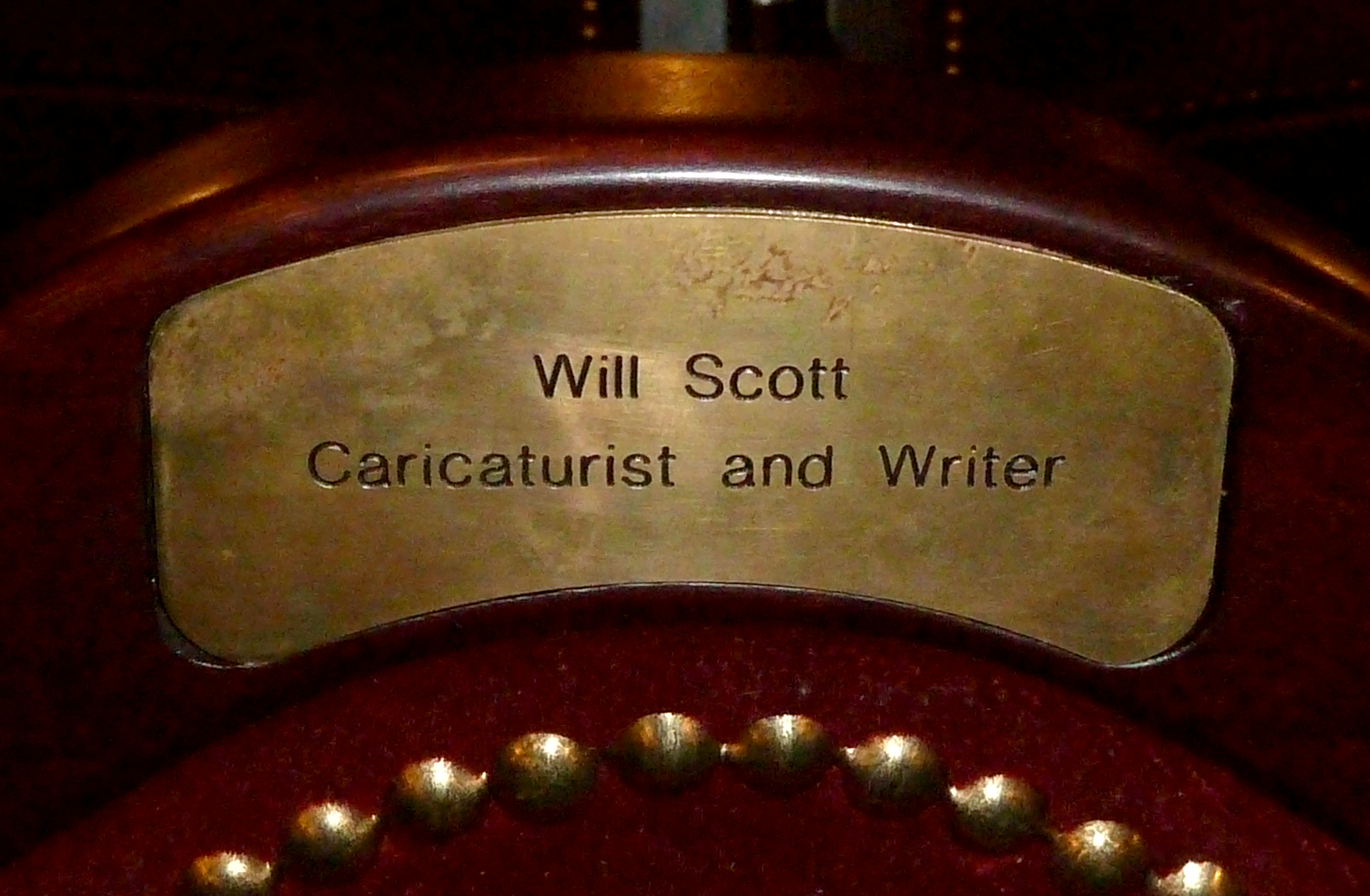 Dedication to William Matthew Scott, caricaturist and author, on stall seat P6 at Leeds City Varieties theatre. The seat was dedicated in 2011.